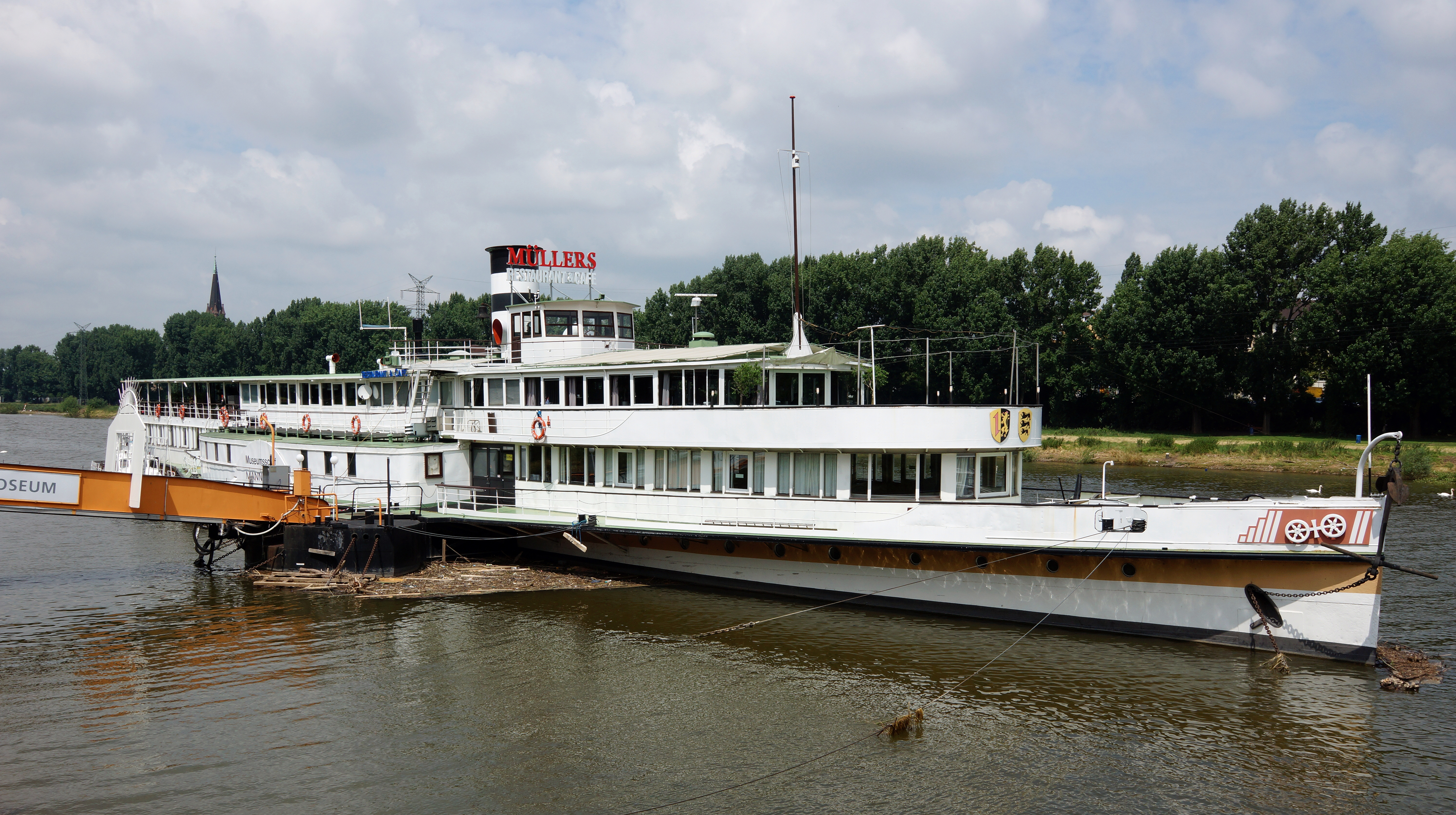 Museum ship in Mannheim, Germany.